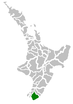 Location of South Wairarapa District.